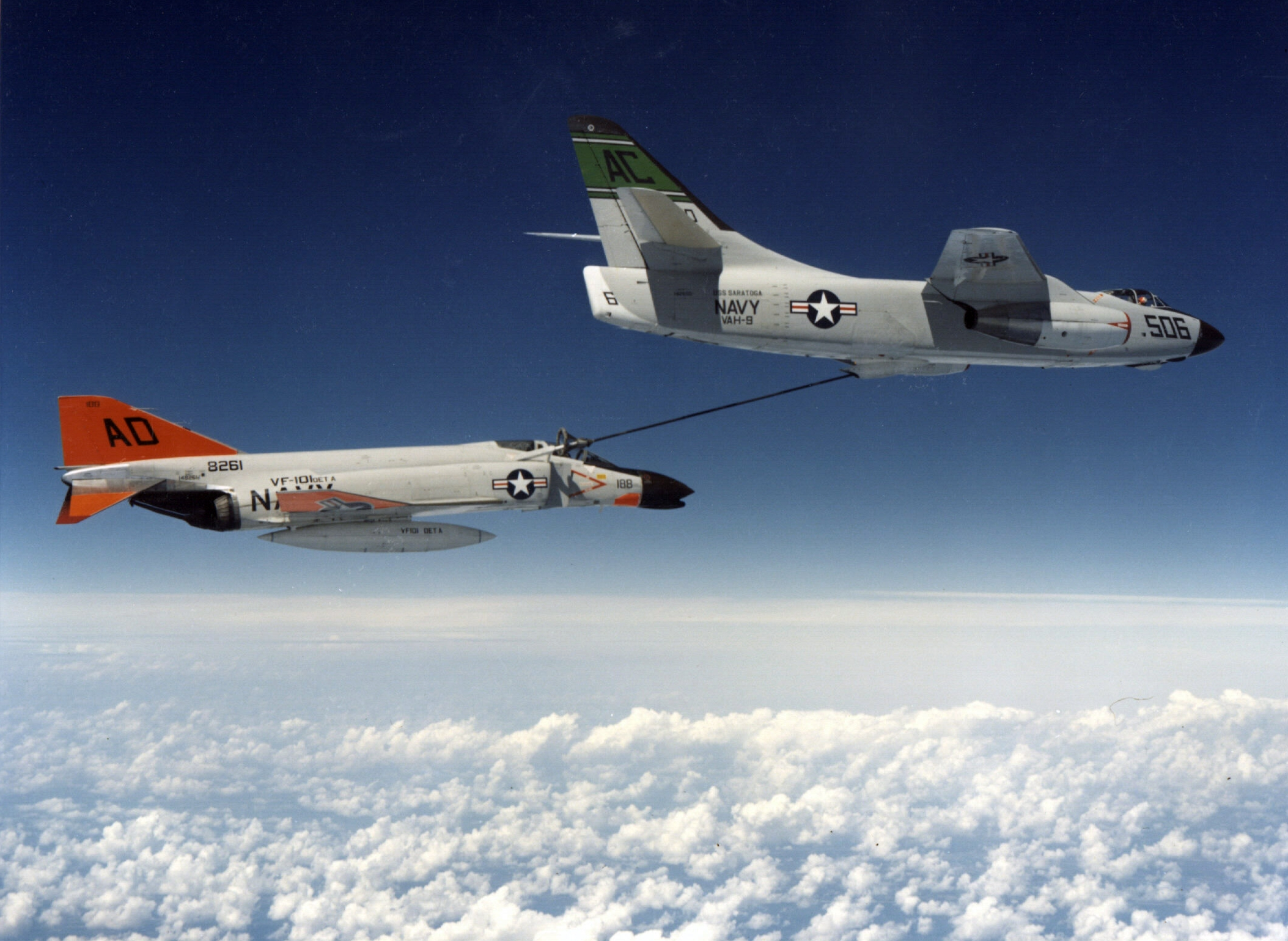 A U.S. Navy Douglas A3D-2 Skywarrior (BuNo 142650) from Heavy Attack Squadron VAH-9 Hoot Owls refueling a McDonnell F4H-1F Phantom II (BuNo 148261) from Fighter Squadron VF-101 Det. A Grim Reapers during the "Project LANA Bendix Trophy Race" in 1961. To cap off the Phantom´s successful speed and altitude efforts, the U.S. Navy initiated "Project LANA", a transcontinental flight by five F4H-1F (after 1962 F-4A). The Roman letter "L" means "50", "ANA" stood for the "(50th) Anniversary of Naval Aviation". Refueling problems of BuNo 148261 handed the Bendix Trophy Race contest on 24 May 1961 to the F4H-1F BuNo 148270, which flew from Ontario, California (USA), to Floyd Bennett Field, New York (USA), at an average of speed of 1399.66 kph.